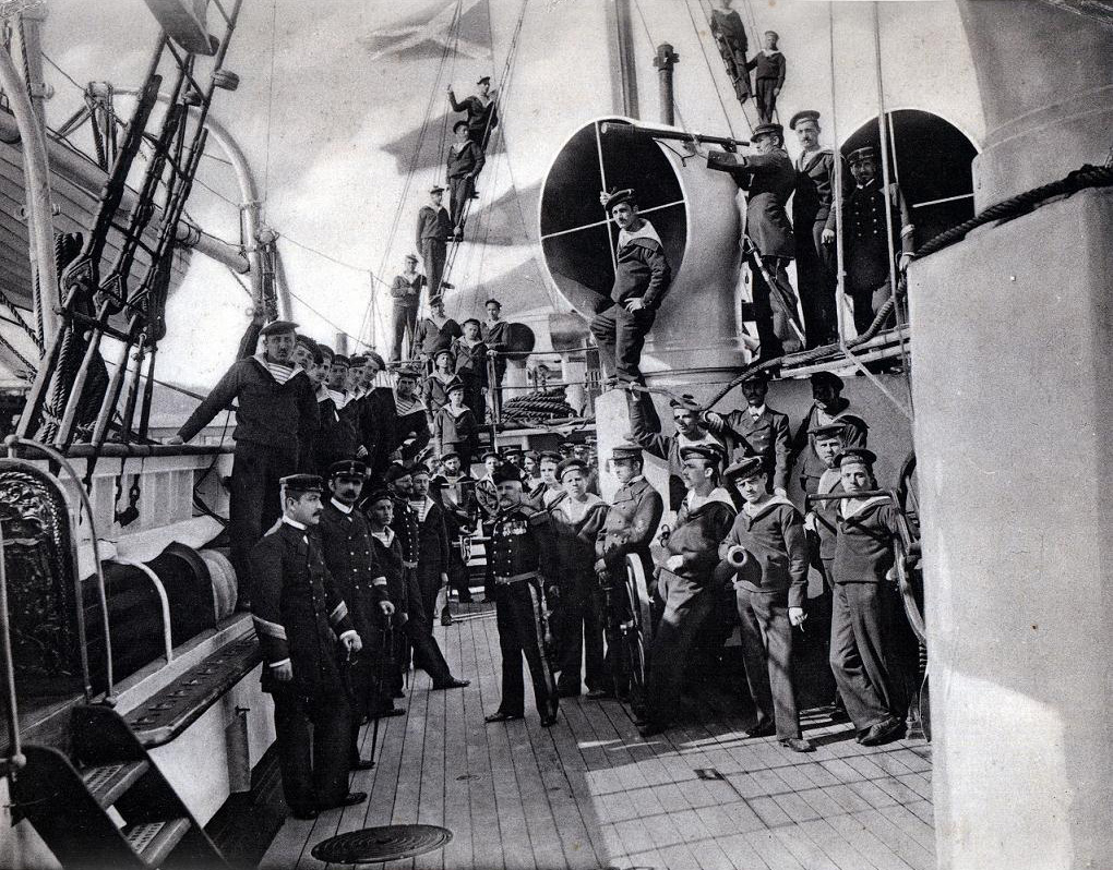 On the board of the romanian cruiser Elisabeth